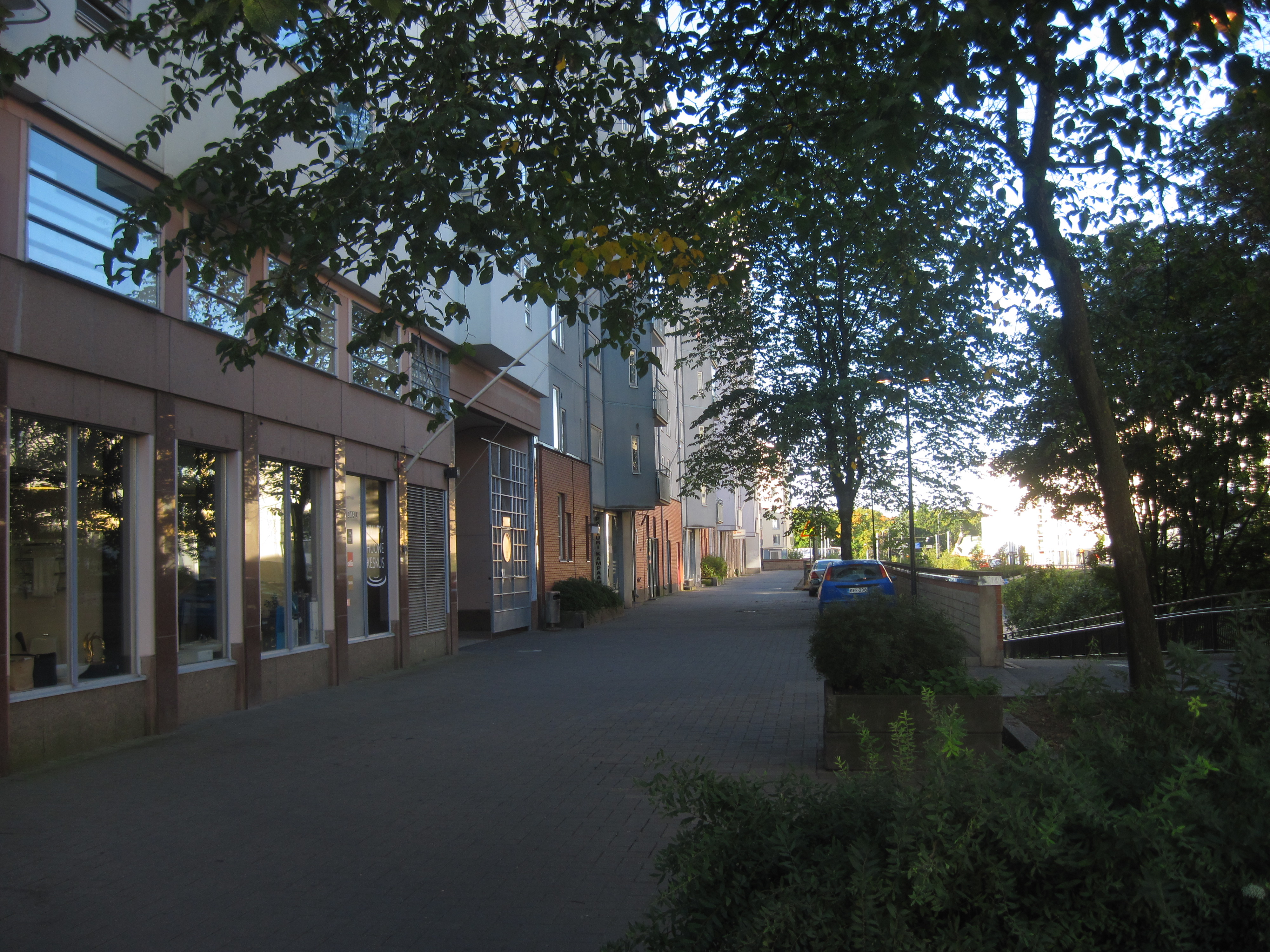 Western part of Eteläinen Rautatiekatu in Helsinki